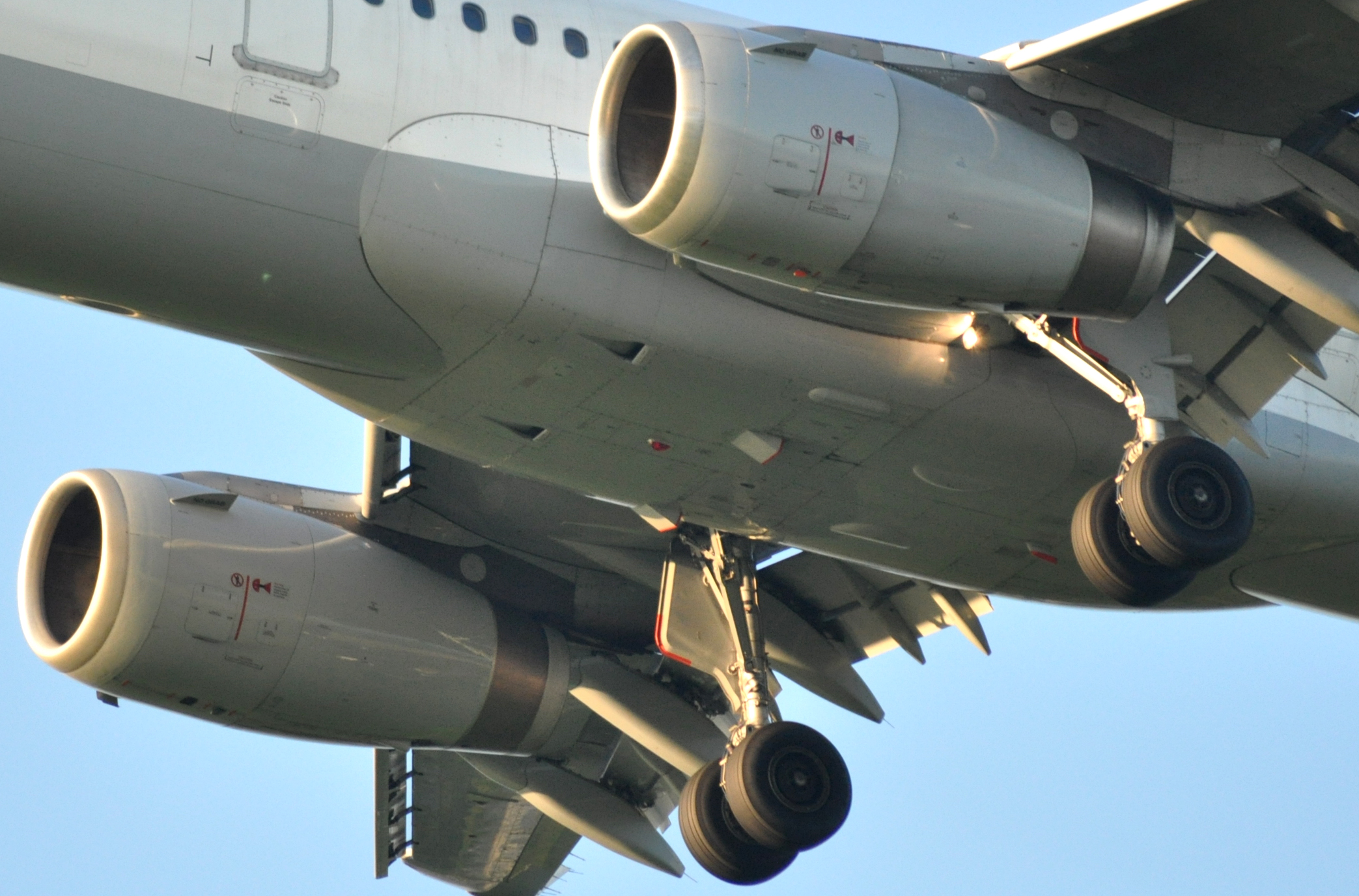 V2500-Engine Lufthansa